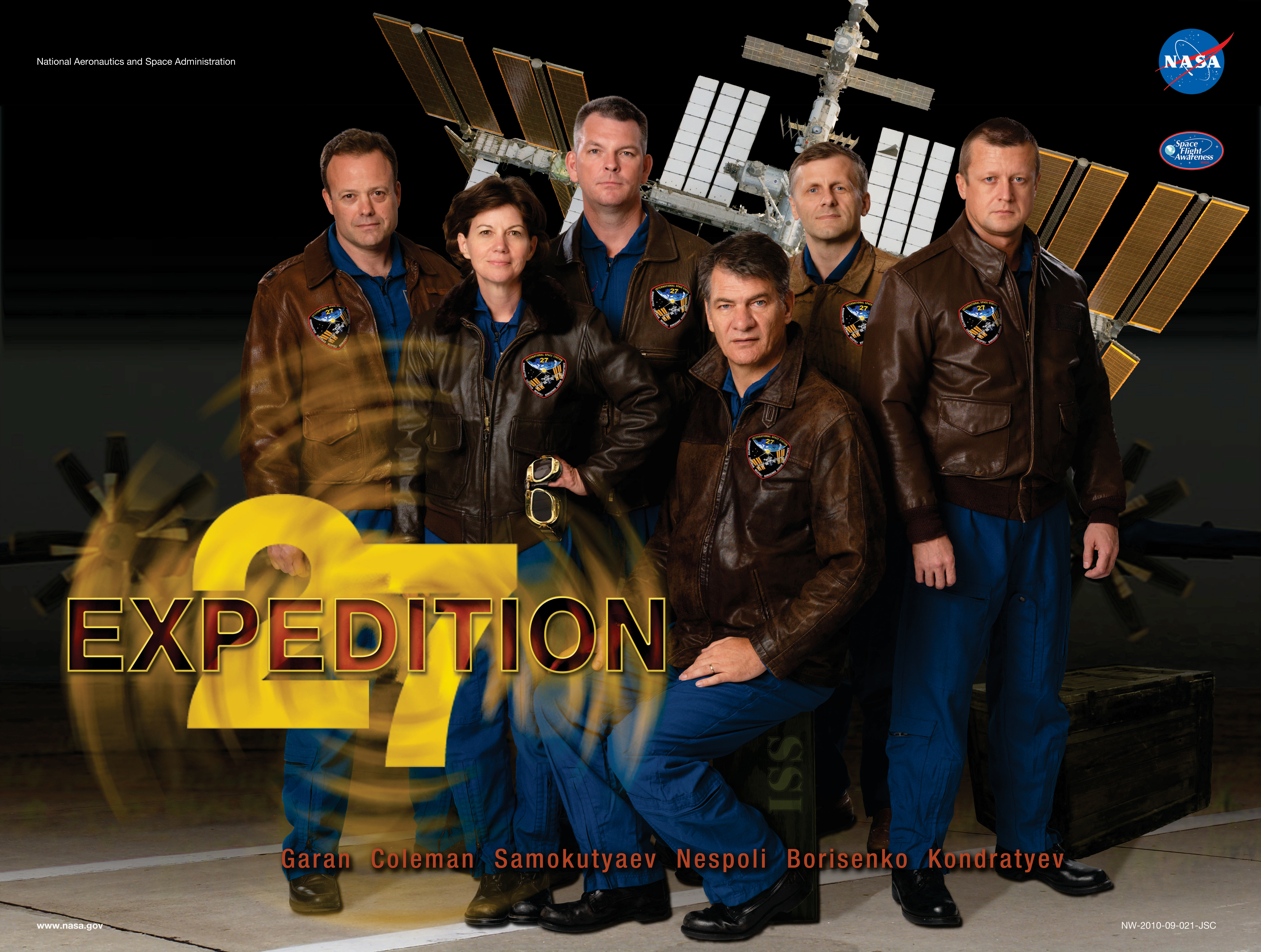 Expedition 26/27 crew Space Flight Awareness Poster image. Photo Date: July 21, 2010. Location: Building 8, Room 272 - Photo Studio. Photographer: Robert Markowitz.